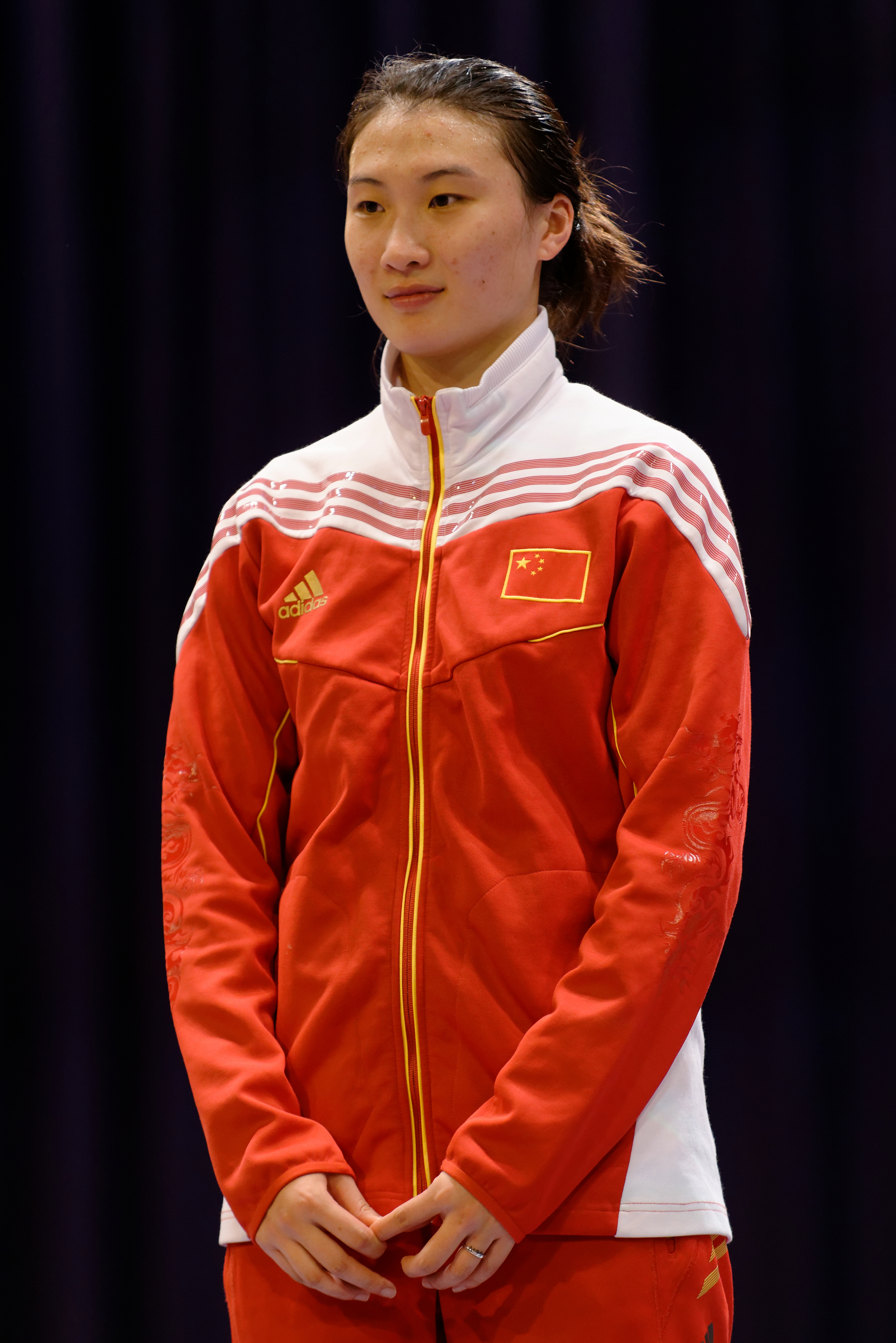 China's Xu Anqi on the podium at the 2014 Challenge International de Saint-Maur (women's épée World Cup).